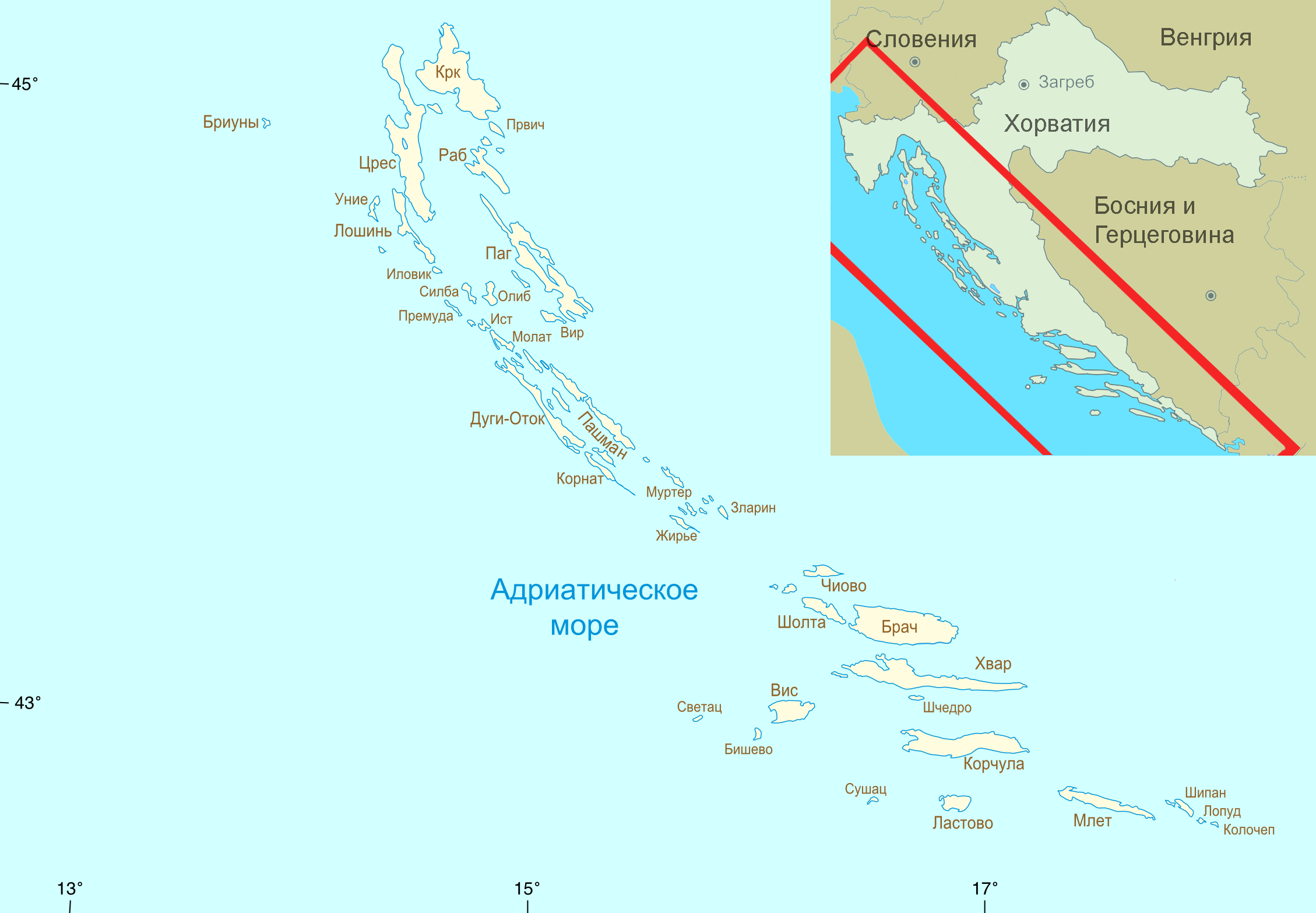 Islands of Croatia